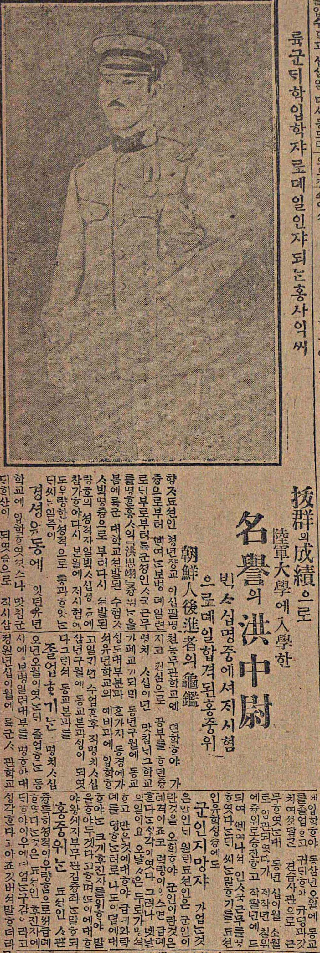 Entrance into the Army War College of Hong Sa-ik, Maeil Sinbo, December 16, 1920